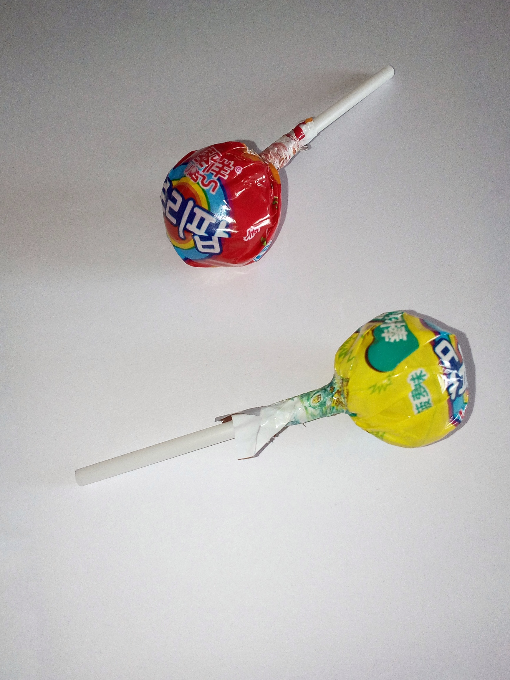 Two different flavors of Chinese lollipops.